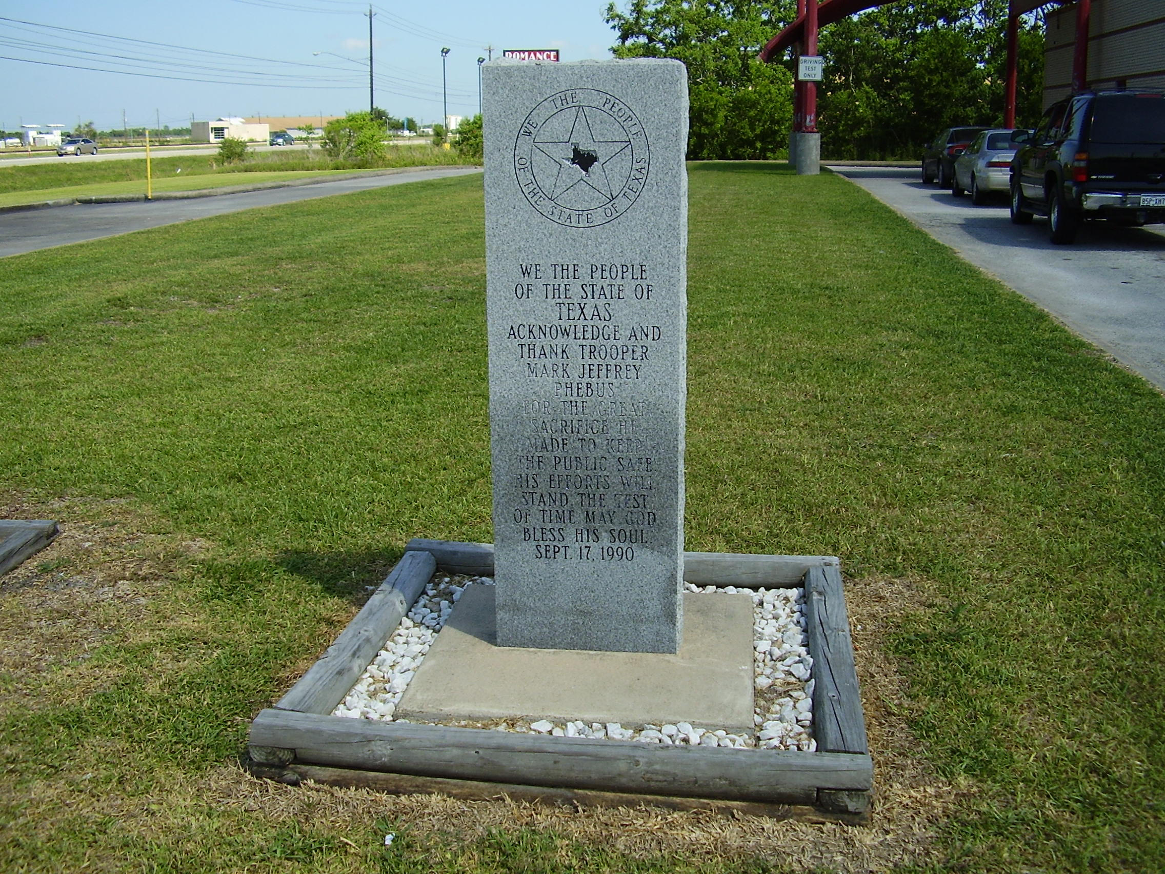 A memorial for State Trooper Mark Jeffrey Phebus, dated September 17, 1990, located at the Webster Texas Department of Public Safety office in Houston